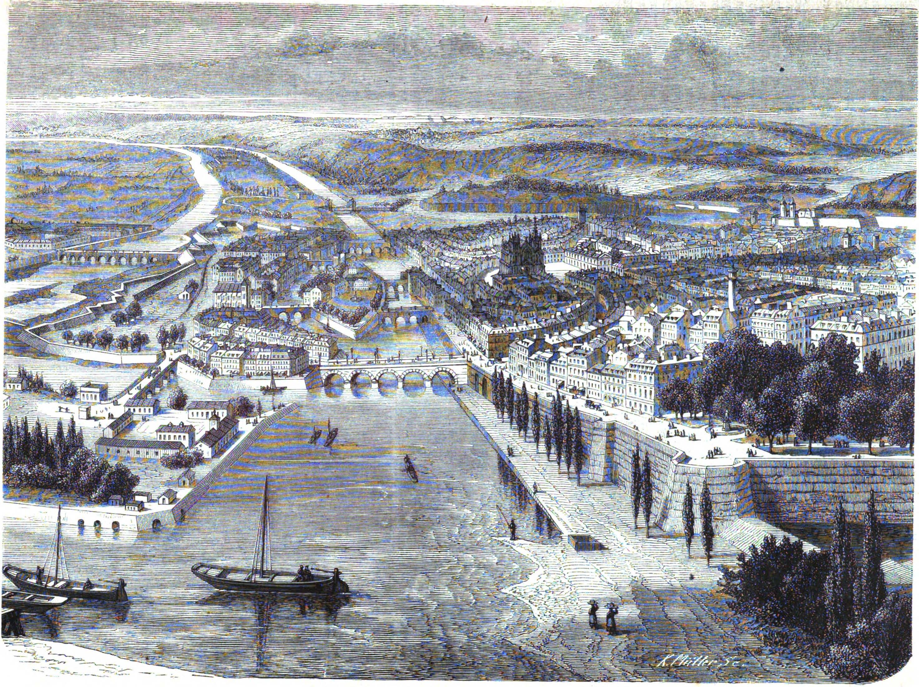 The City and Fortress of Metz in 1871. Contemporary total view by Ernst Kirchhoff.